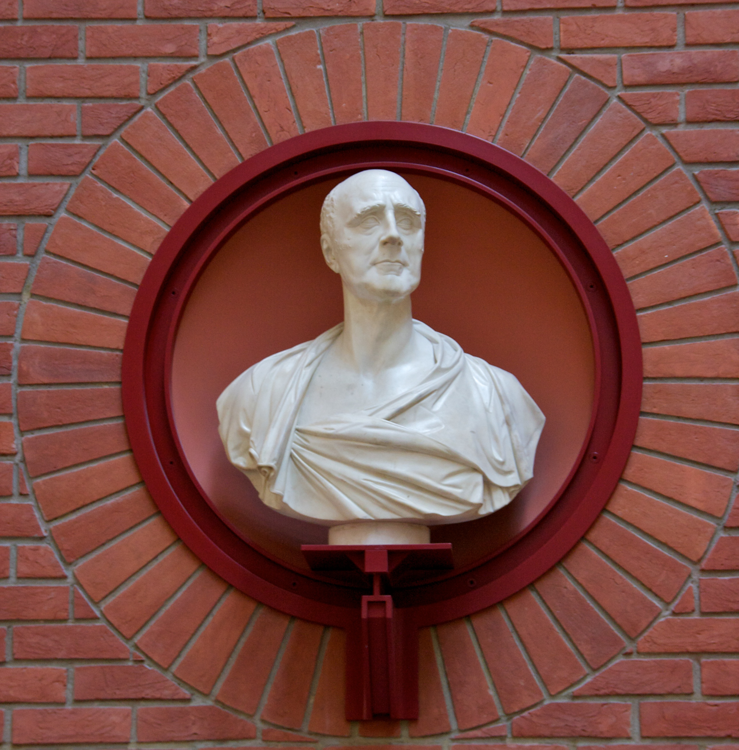 Thomas Grenville 1755-1846, G.B. Comolli. Bust on display in the British Library. Taken during the wmuk:Editathon, British Library.